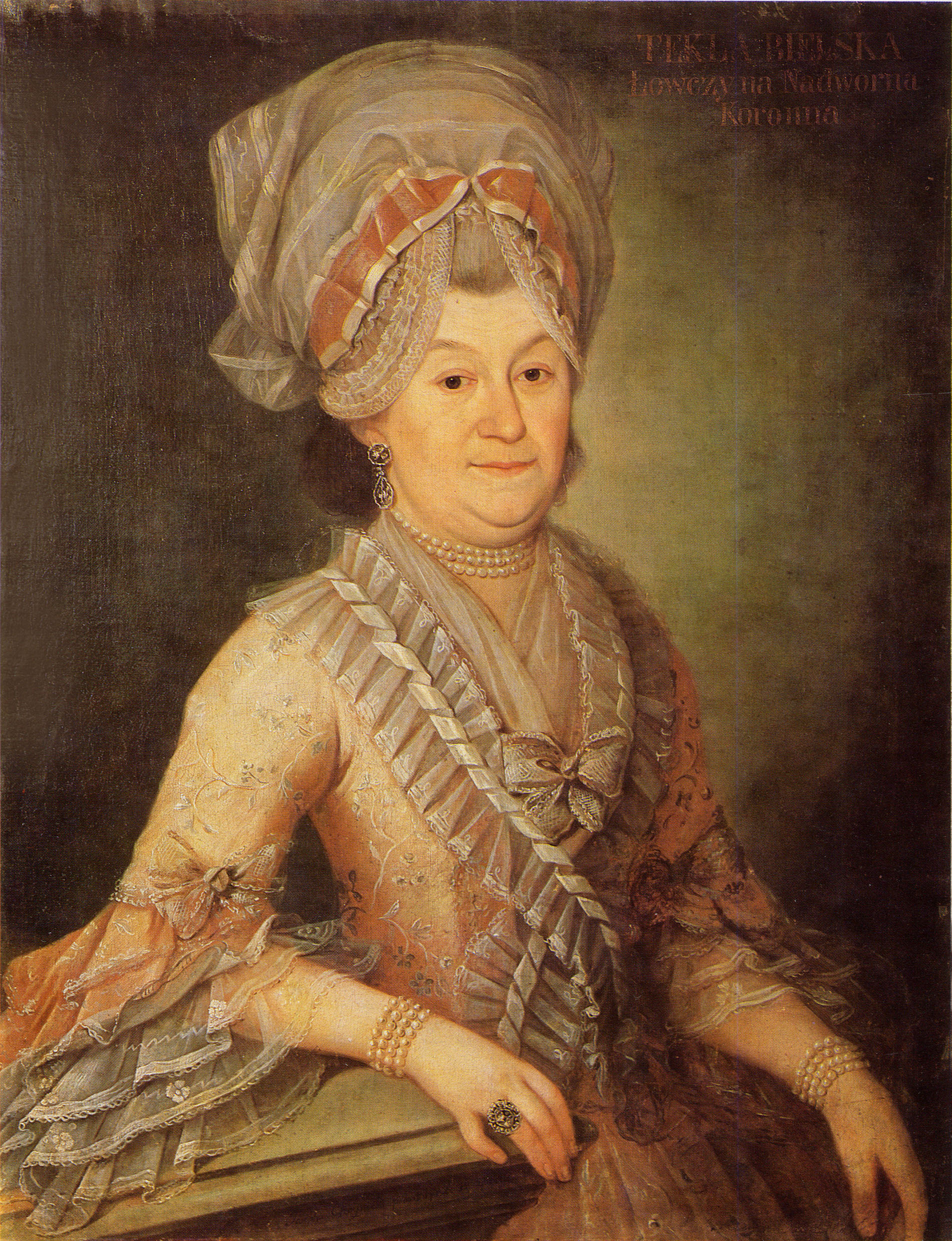 Portrait of Thekla Bielska